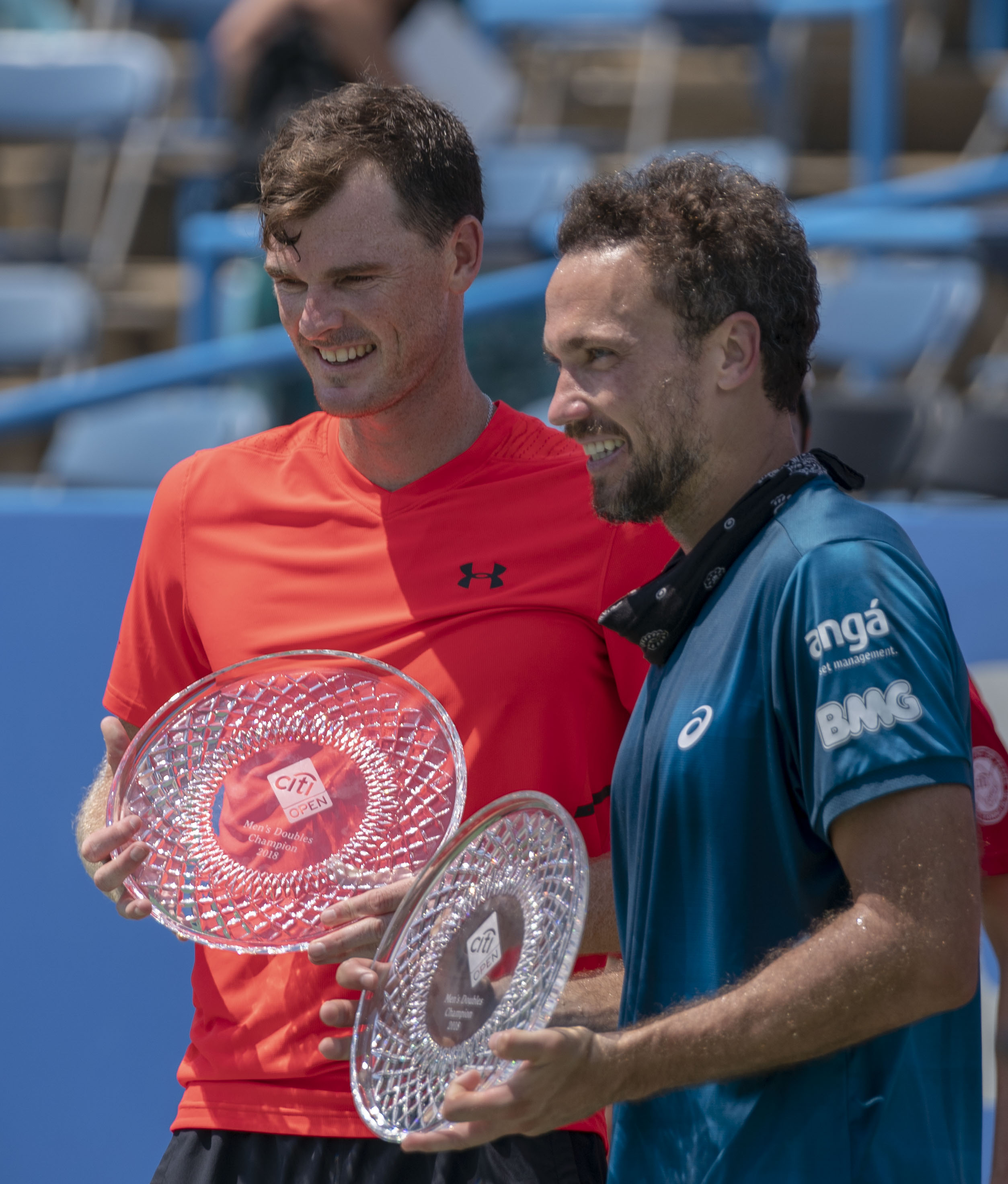 2018 Citi Open Tennis Finals